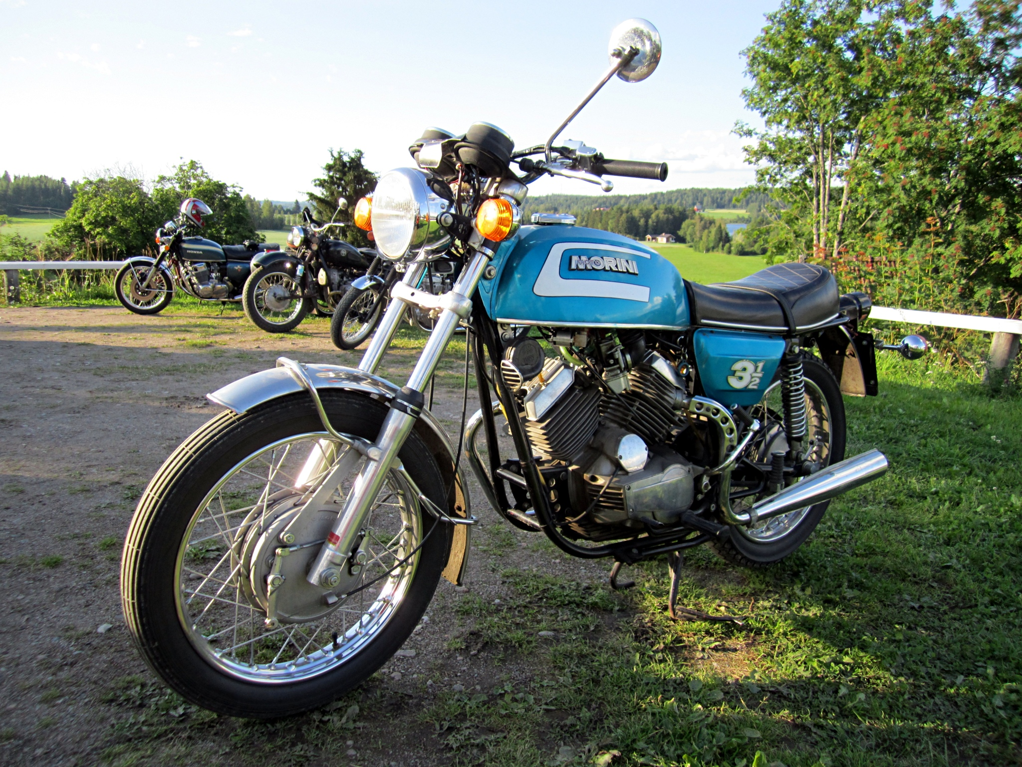 Moto Morini 3½ GT (Strada) motorcycle (1974). This bike was imported to Finland as a sample by Suomen Koneliike and later bought by Olavi Sallinen. For many years, it was displayed at Vehoniemi Car Museum in Kangasala, Finland